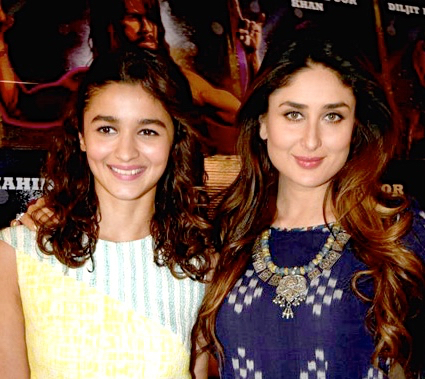 Indian actresses Kareena Kapoor and Alia Bhatt at a promotional event for their film Udta Punjab in 2016